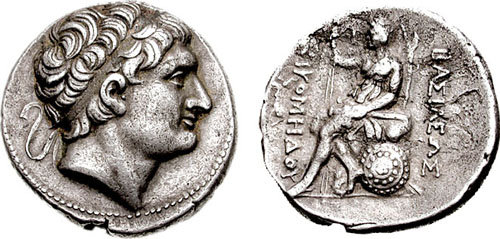 Coin of Nikomedes I of Bithynia. Obverse shows head of Nikomedes. Reverse shows Bendis seated, holding two spears.